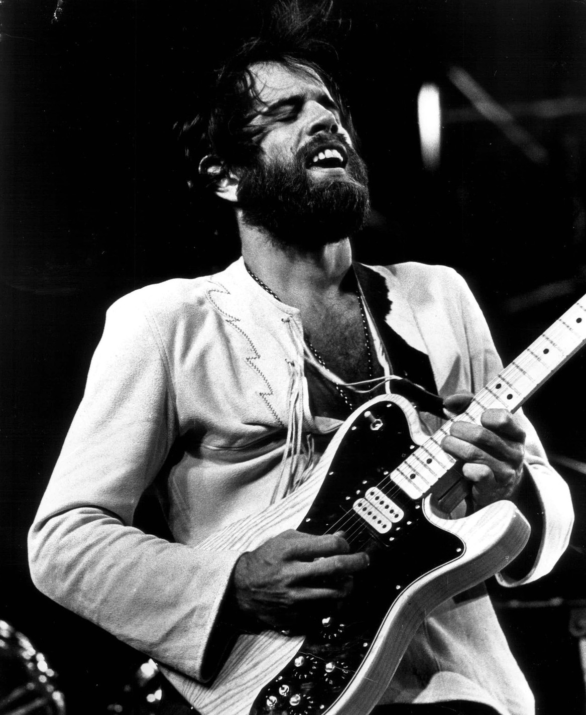 Photo of musician Joe Beck.